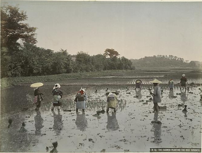 Farmers Planting the Rice, 1890s, Hand-colored albumen print